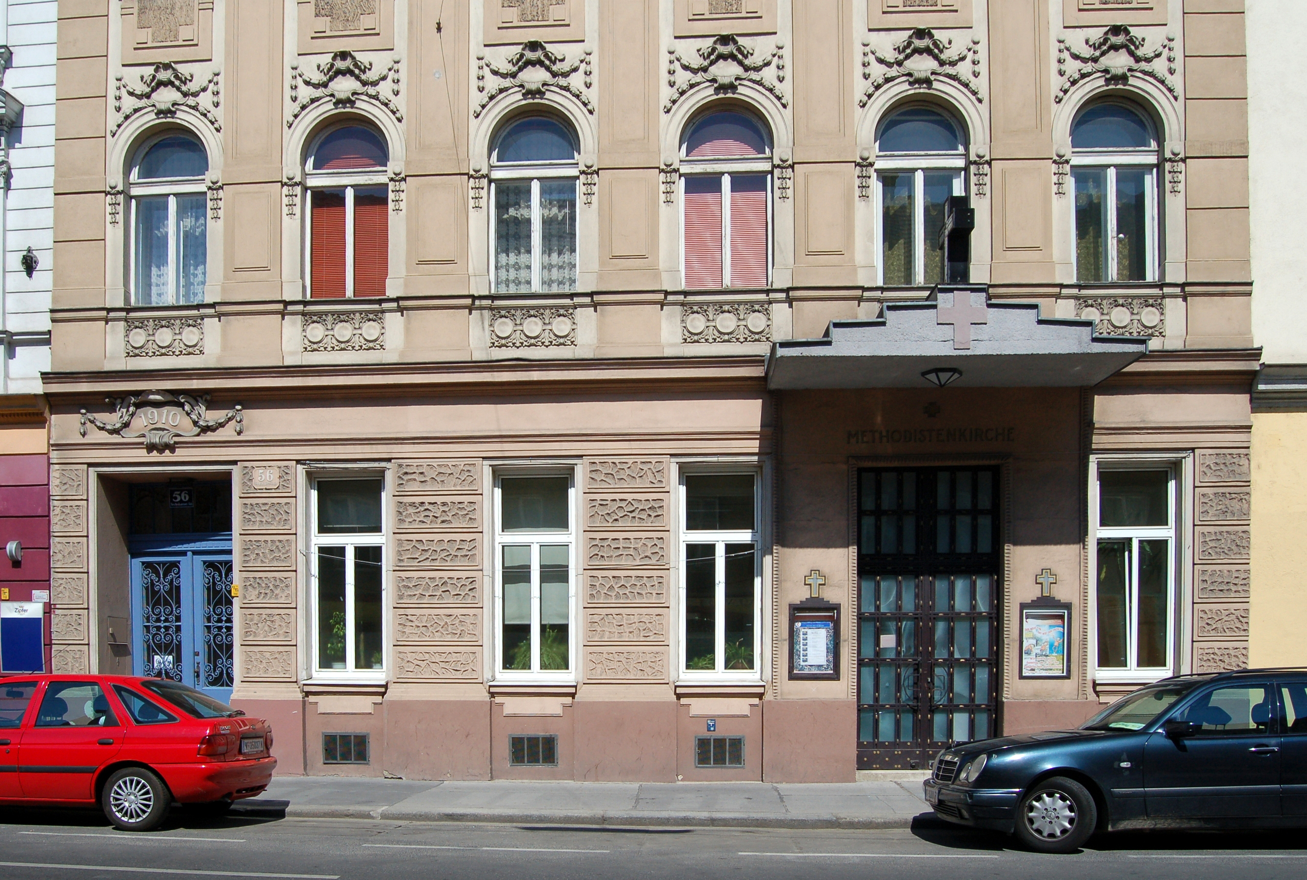 United Methodist Church in Sechshauserstraße 56, Rudolfsheim-Fünfhaus, Vienna. The building is a Cultural Heritage Monument.